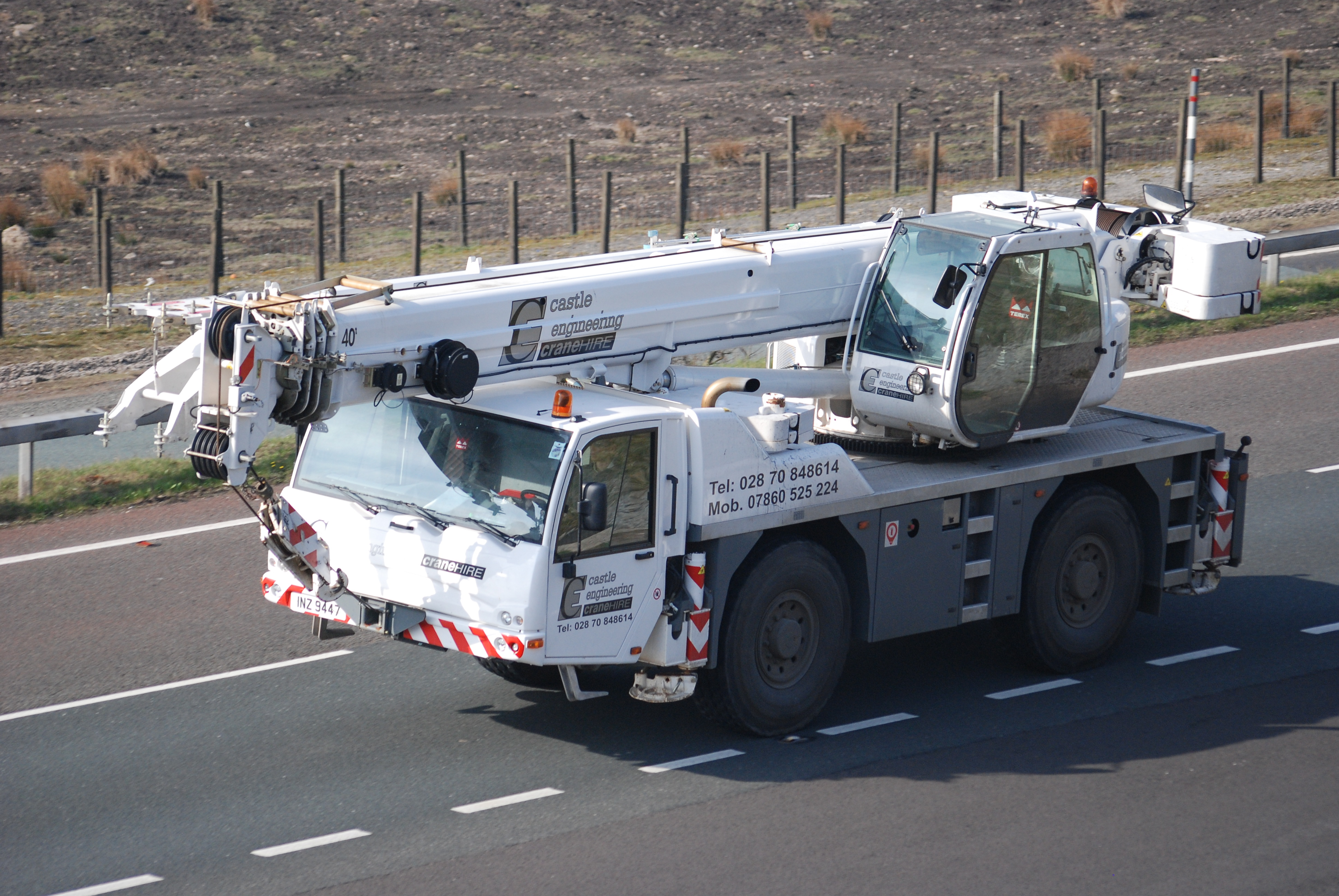 A crane truck, Castle Engineering, Londonderry.